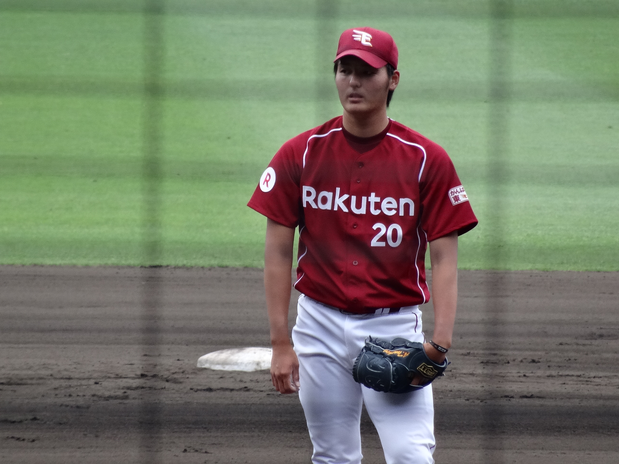 Tomohiro Anraku, pitcher of the Tohoku Rakuten Golden Eagles, at Hanshin Koshien Stadium.